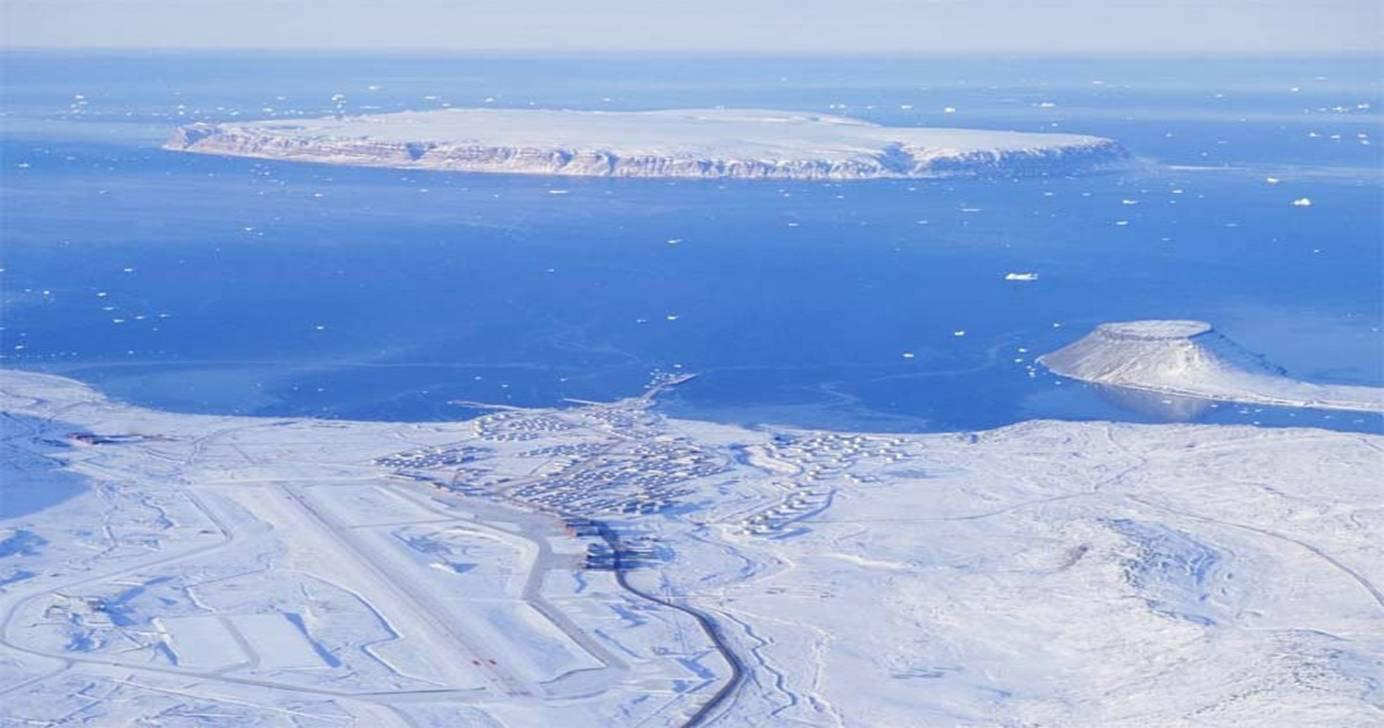 Aerial view of Thule AFB, Greenland VIRIN = 061108-F-#####-026